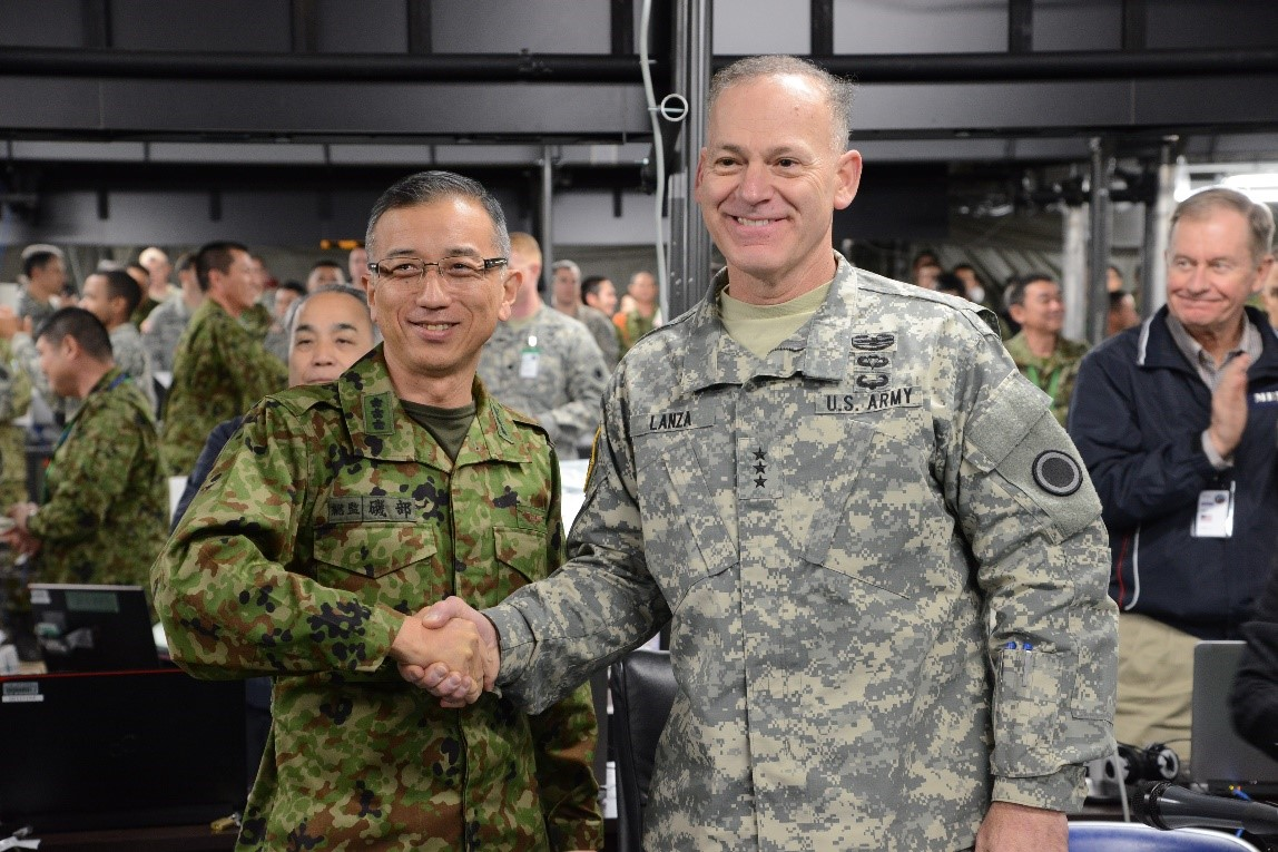 with LTG Stephen Lanza at YS-67(Japan's largest command post exercise), December 2014